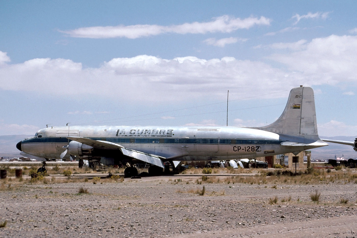 CP-1282 of Transportes Aereos La Cumbre at La Paz El Alto in October 1997. This DC-6C had already made its last flight.